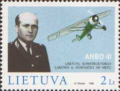 Lithuania post stamp. Antanas Gustaitis plane ANBO-41. Catalogue Mi 662